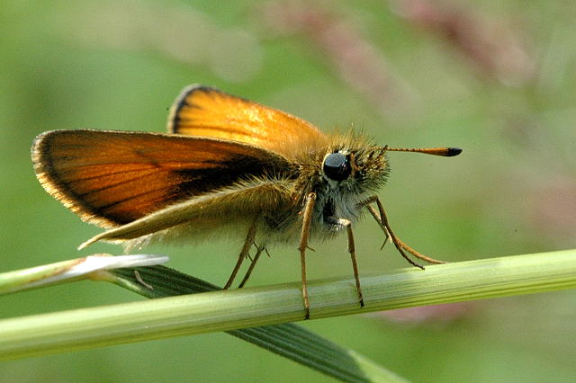 Picture taken in Commanster, Belgian High Ardennes . Species: Thymelicus lineola